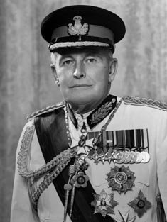 Sir Denis Blundell, governor-general of New Zealand from 1972 to 1977